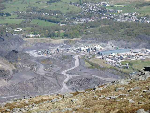 Splitting Sheds and Crushing Plant at Penrhyn Quarry.